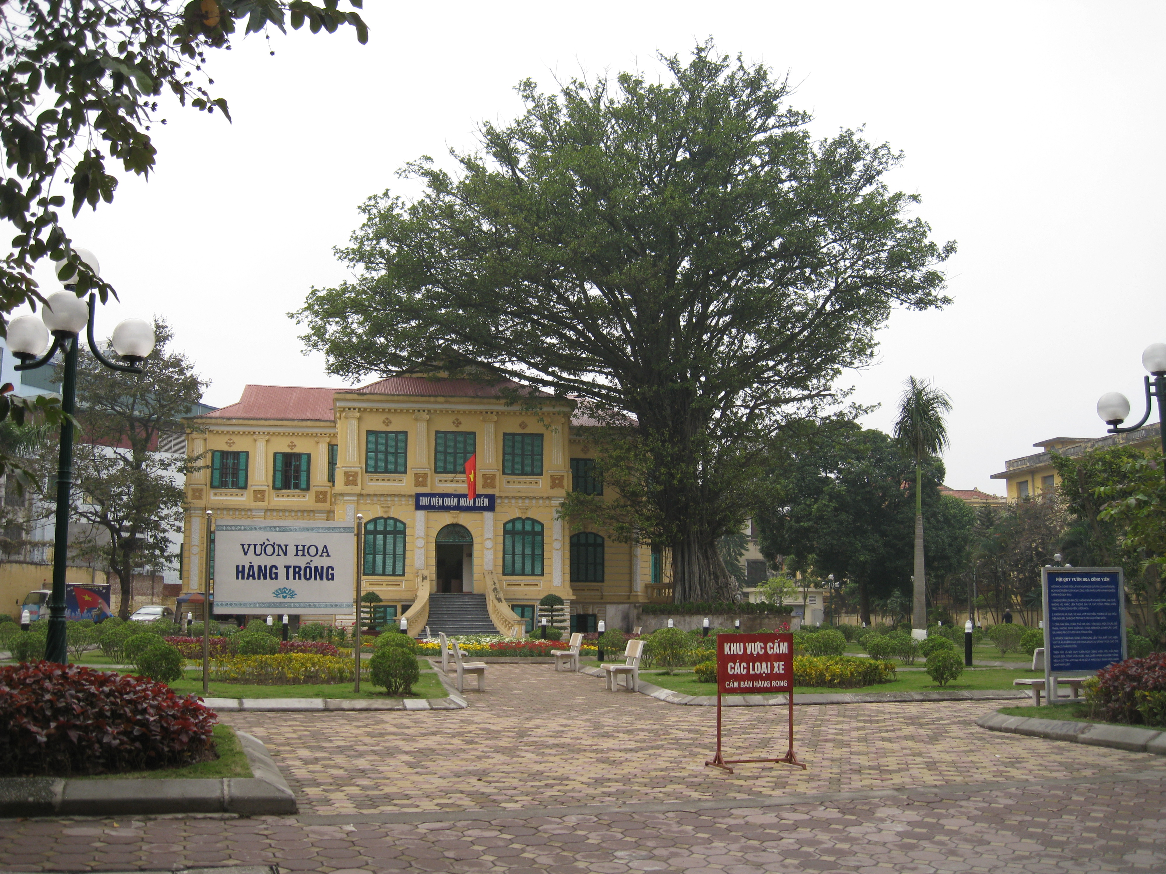 Hàng Trống Park, Hanoi.